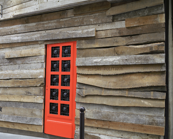 Lieu de vente des marques RT et Resistance